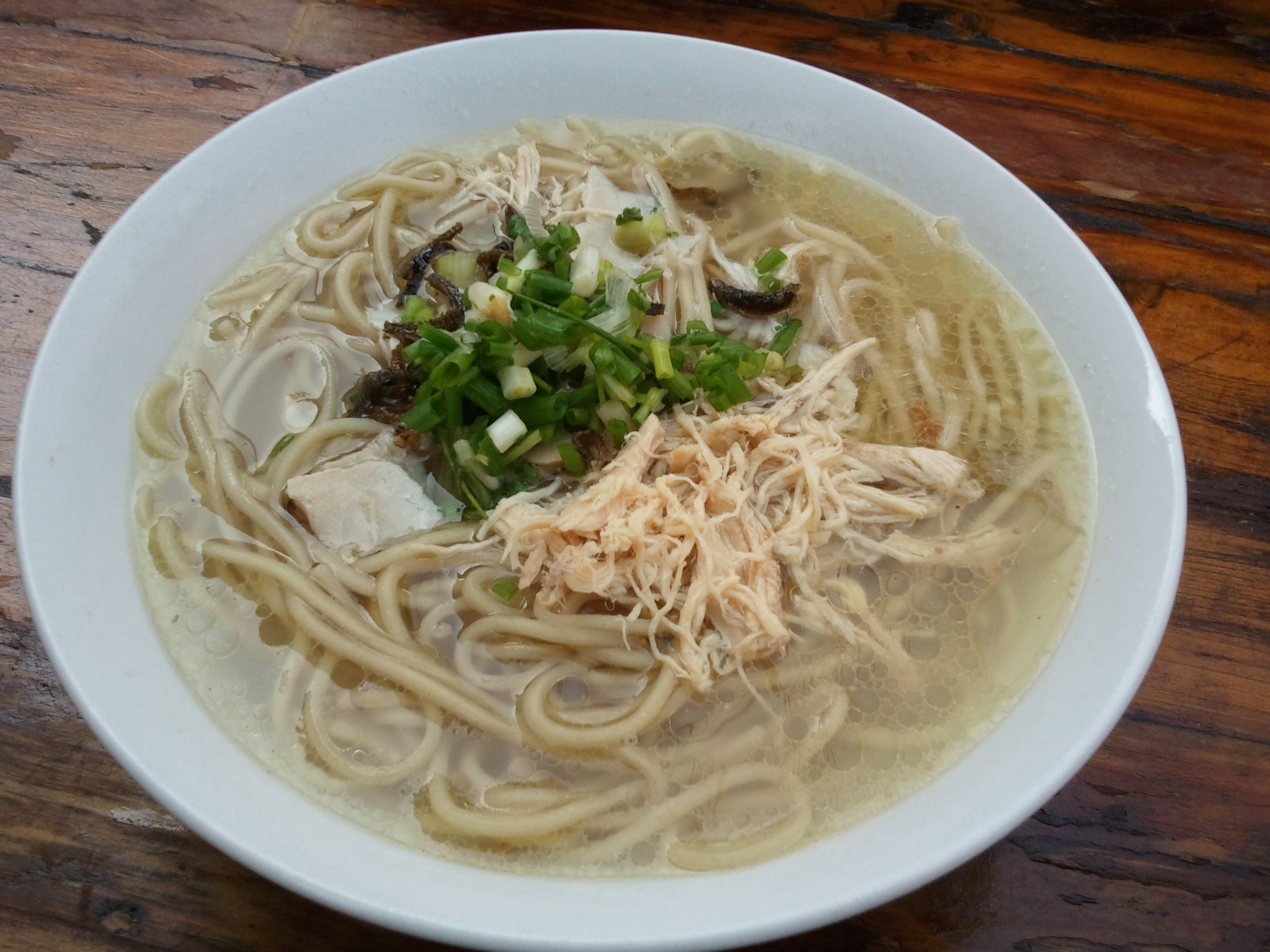 Shashi district breakfast hot noodles soup called dàlián miàn (大连面)